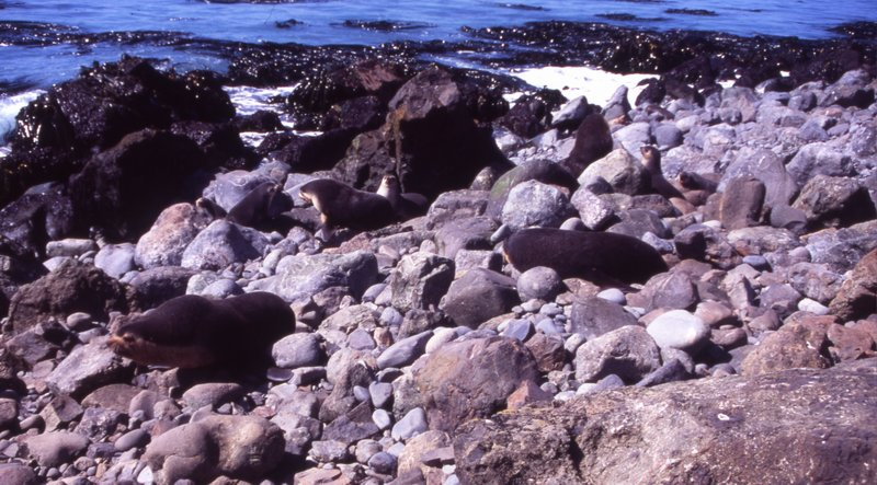 This picture was taken in Possession Island (Crozet Archipelago) at the site named "the elephant seal pool". This picture was taken in december 2002 by Nicolas Servera. In the foreground, you can see two males of the subantarctic fur seal (Arctocephalus tropicalis) leaving each other after a confrontation. No real fight has happend. The border is marked by bigger rocks. On the left, the male is strutting along his territory. On the right, the male is staying on the border and seems to be watching two other males on the middle distance. In the middle distance, you can see two other males. They have watched the confrontation. Now, they seem to be strutting around their terreitories and watching closely their own females.